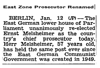 Brief note in the New York Times from Jan. 13, 1955, about the re-election of Ernst Melsheimer as East Germany's chief prosecutor (Generalstaatsanwalt)